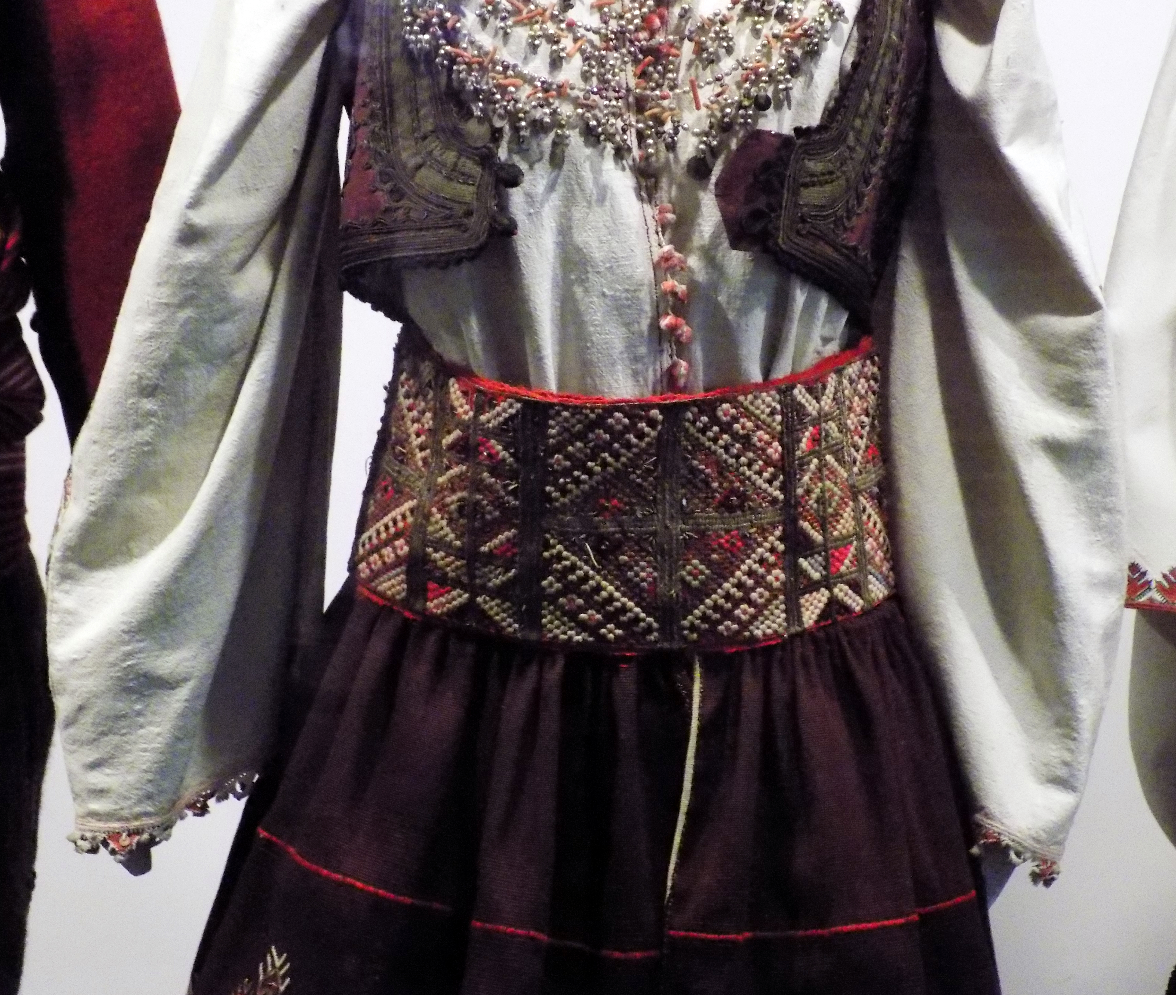 Serbian folk costumes from Kosovo (Ethnographic Museum in Belgrade)